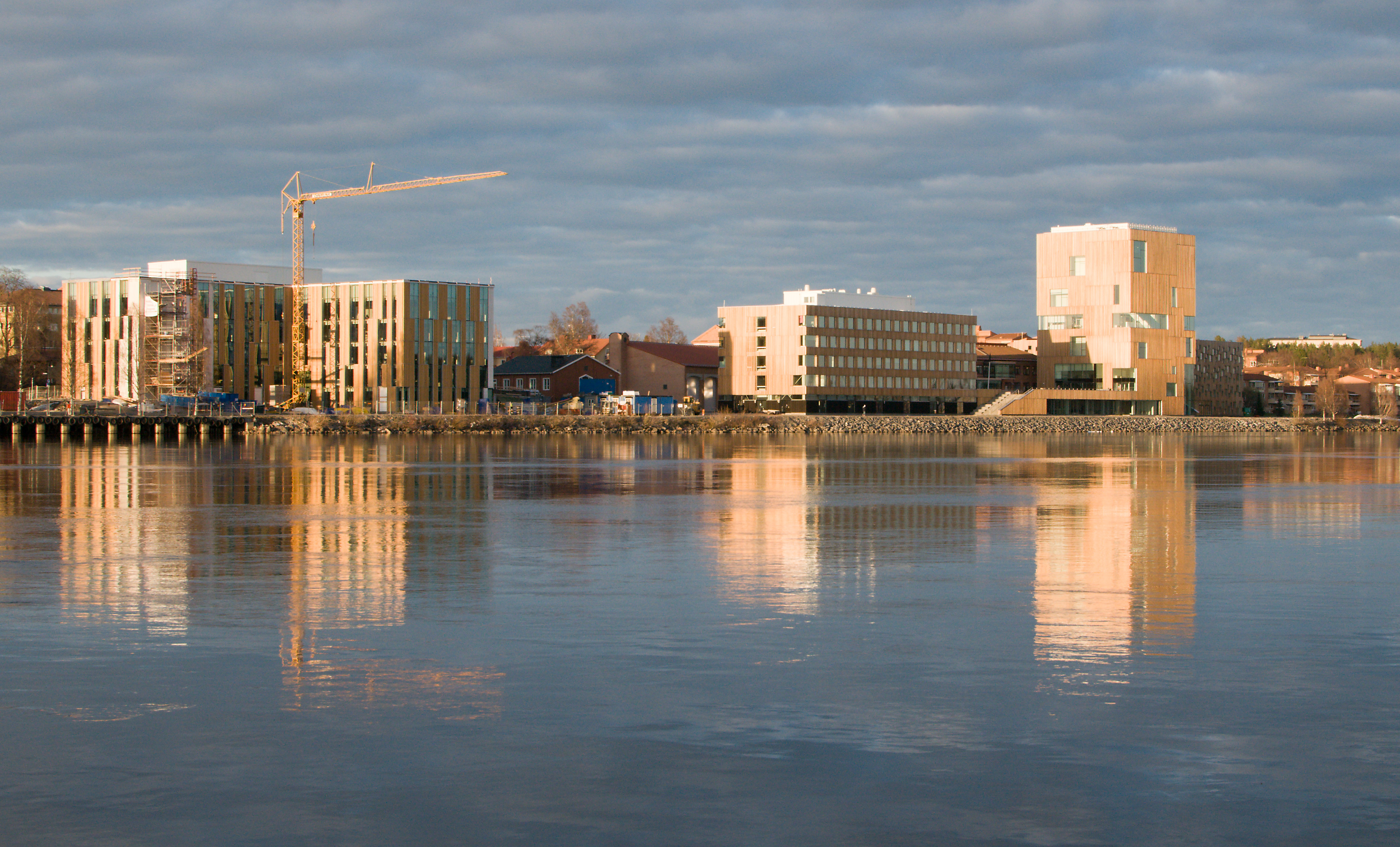 Arts Campus in Umeå